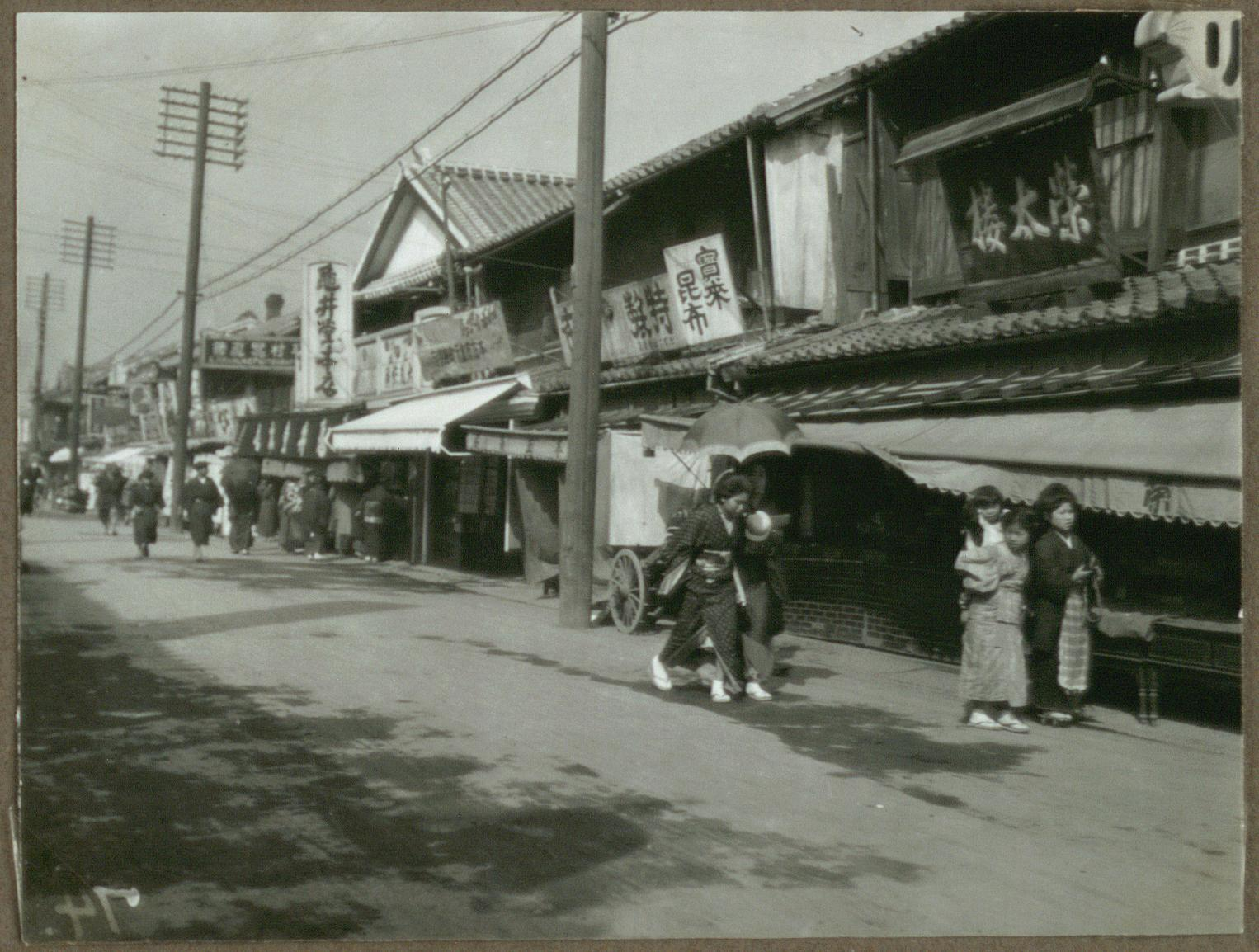 Photographer: Engineer J. A. L. Horn 1935. No. es_b_00562